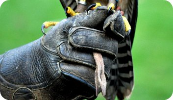 I,Charlie Hart, am the sole owner of this photo and I give permisson for the photo to be used if a link attribution is made to